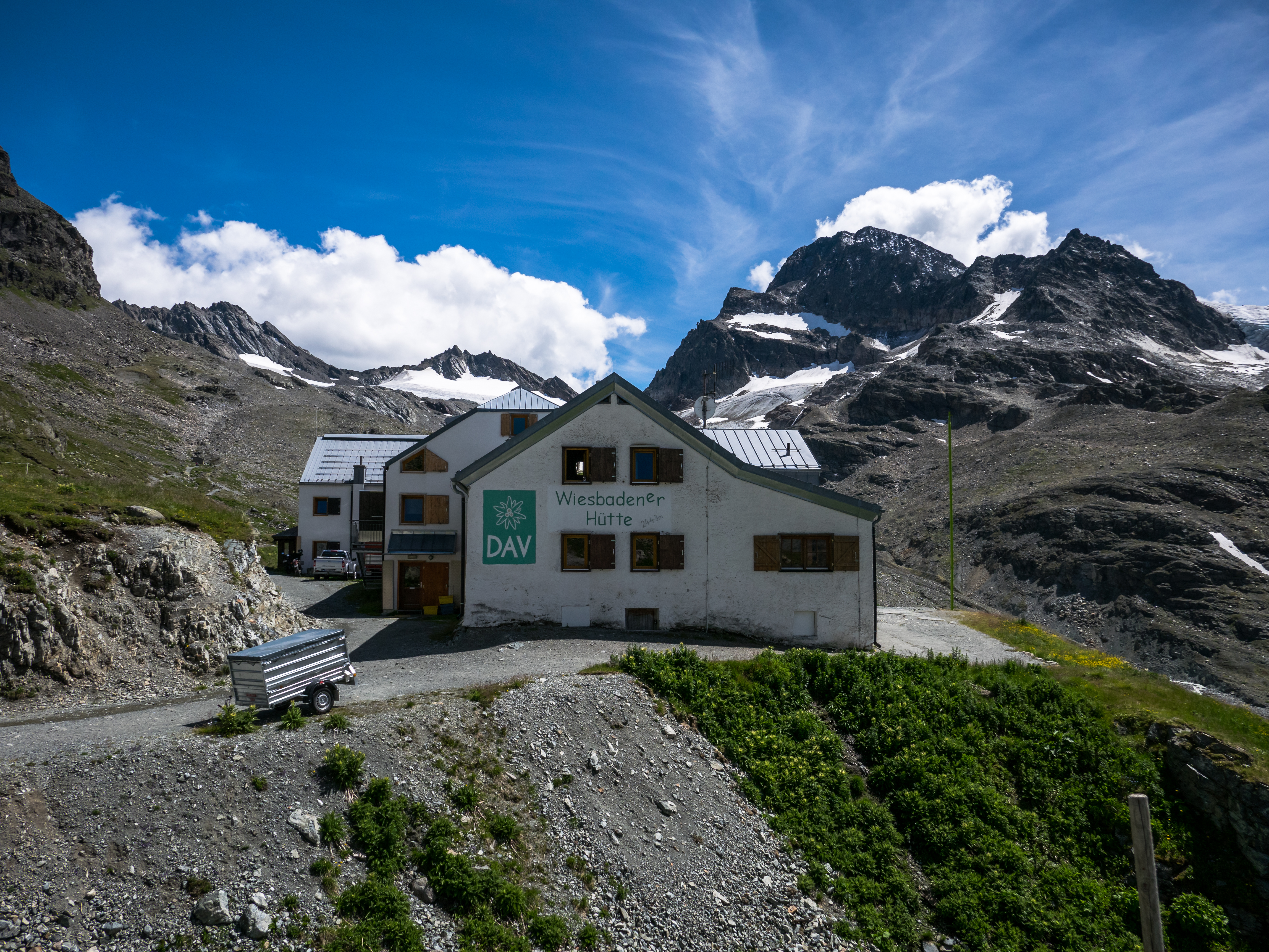 Alpine hut "Wiesbadener Hütte" in the Ochsental valley. Vorarlberg, Austria